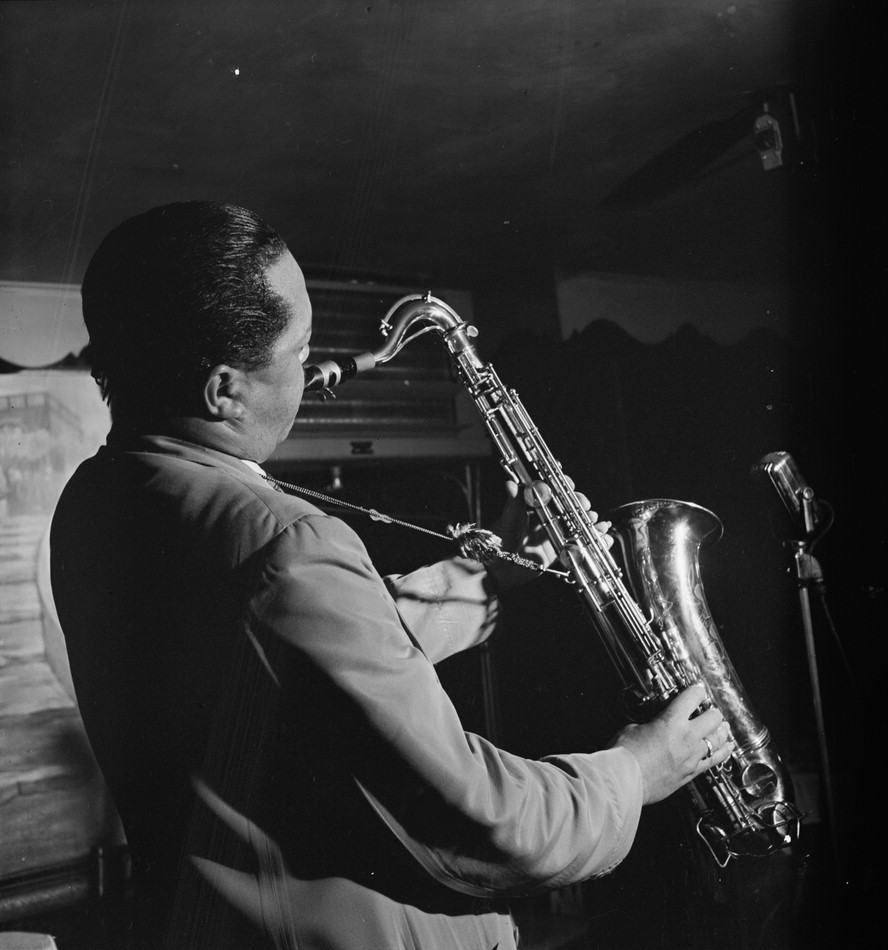 Portrait of Lester Young, Famous Door, New York, N.Y.